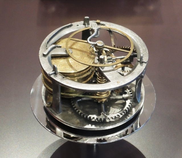 Table clock J Czech 1527. Dresden, Mathematisch-physik. Salon